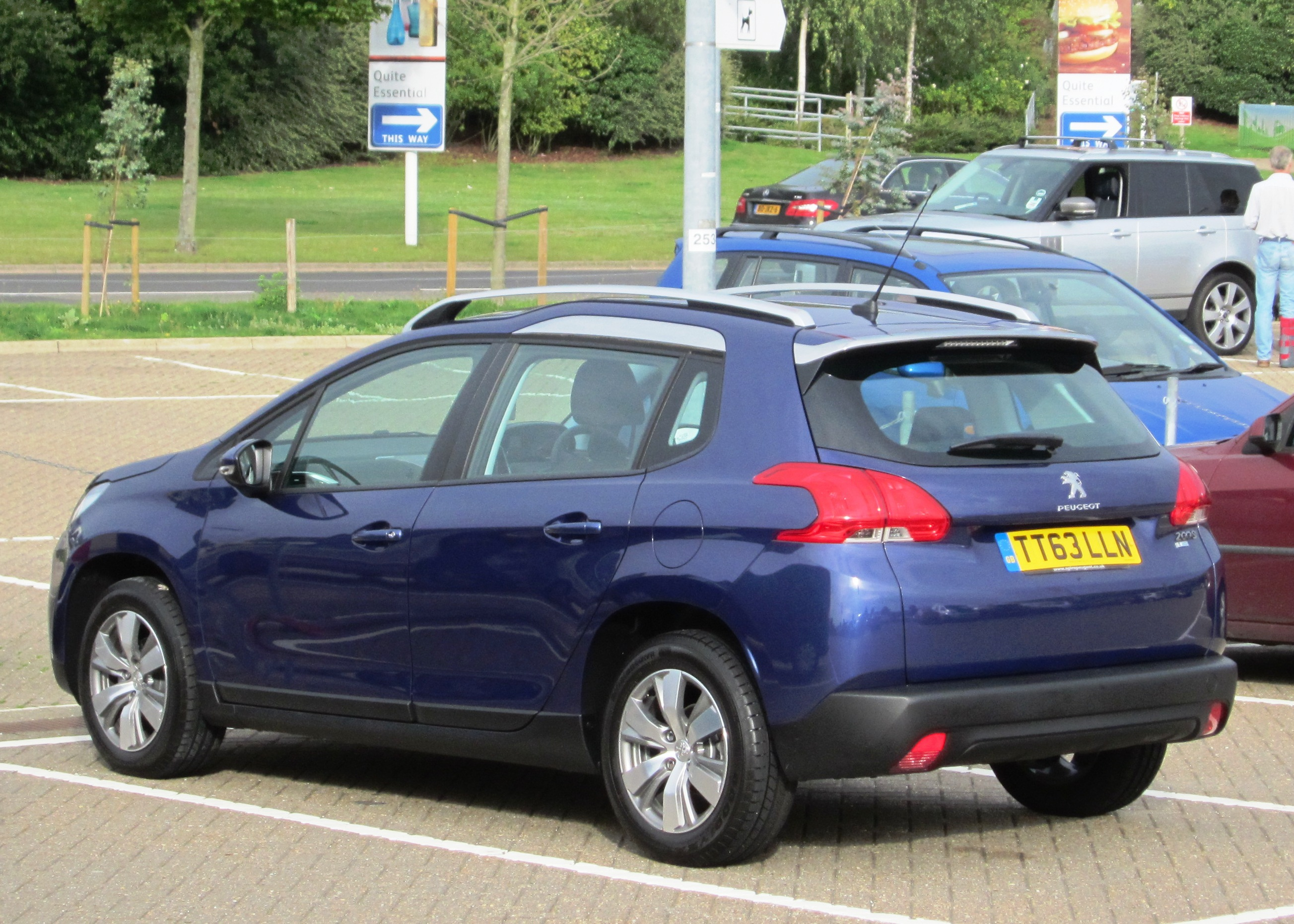 Peugeot 2008 1560cc Diesel (2013) Registration plate has been changed. Year code remains correct, however.